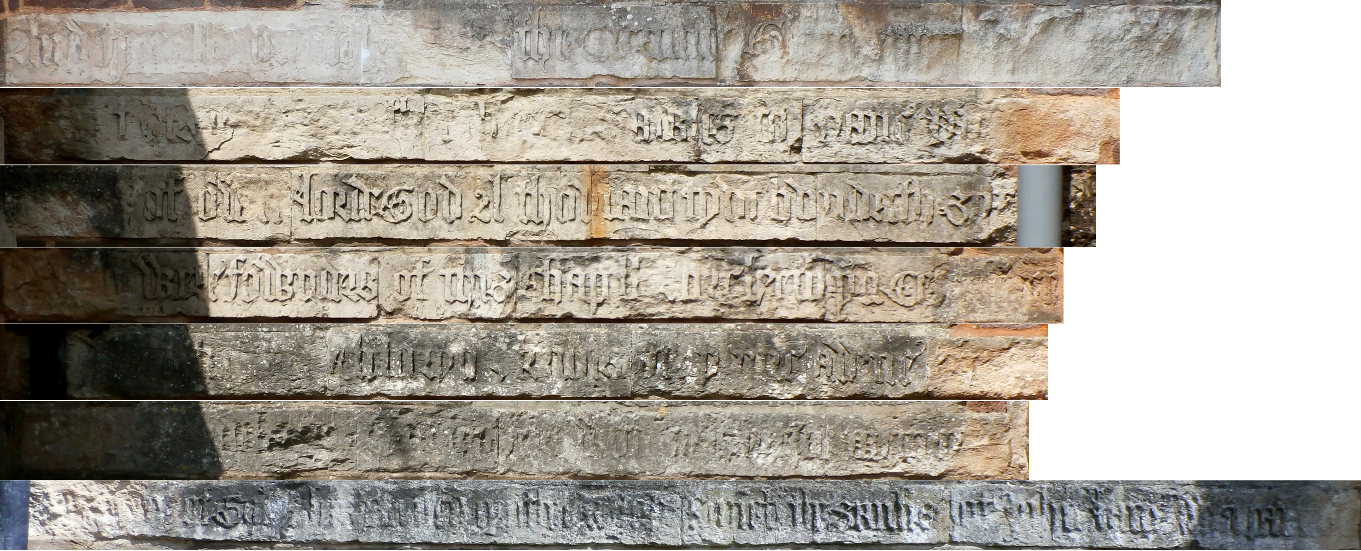 Compilation of inscriptions on exterior of the Lane Chapel, south aisle of St Andrew's Church, Cullompton, Devon. The inscription is sculpted low-down on the outside wall of the aisle, running round all three sides of the building, with each word cut on detached stones. Transcribed as follows by Cooke (Cooke, George Alexander, Topography of Great Britain, 1802-29Cooke, George Alexander, Topography of Great Britain, 1802-29) "In honor of God and his blessed Mother Mary, remember the soule of John Lane (Wapentake Custos,[1] Lanarius,[2]) (with a Pater Noster and Ave Mary (Smirke, E.)) and the soule of Thomasine his wife, to have in memory all other their children and friends of your own charity which were founders of this chapple, and here lie in sepulture, the year of our Lord one thousand five hundred and six and twenty. God of his grace on both their soules to have mercy, and finally bring them to eternal glory. Amen for charity." "with a Pater Noster and Ave Mary", reinterpretation of Polwhele's transcript ("Wapentake Custos Lanarius") by Smirke, Edward, Notice on Some Obscure Words in the Inscription on the Lane Chantry at Columpton, Transactions of the Exeter Diocesan Architectural Society, Volume 3, Exeter Diocesan Architectural and Archaeological Society, Exeter, 1846-9, pp.62-5[1] See also facsimilie drawing 1847 published in: Delagarde, Philip Chilwell, An Account of the Church of St Andrew, Cullompton, published in Transactions of the Exeter Diocesan Architectural Society, Volume 3, Exeter, 1846-9, p.57[2] See File:Founder'sInscription LaneChapel CollumptonChurch Devon.png